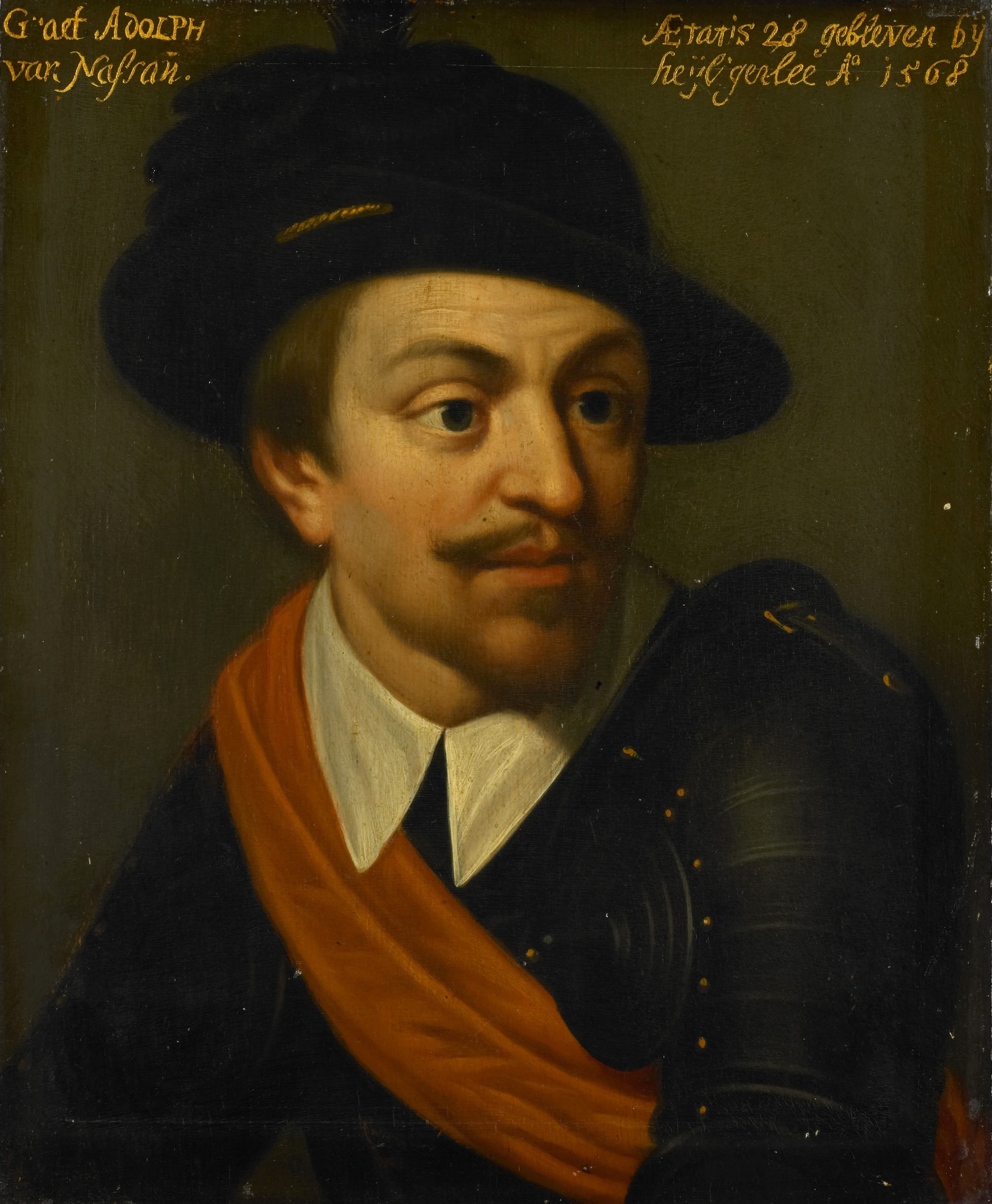 Part of the Leeuwarden series, a series of portraits of military officials from the Eighty Years' War as well as members of the House of Orange-Nassau, first documented in 1633 in the Stadhouderlijk Hof (Stadholder's Court) in Leeuwarden (see Object history).